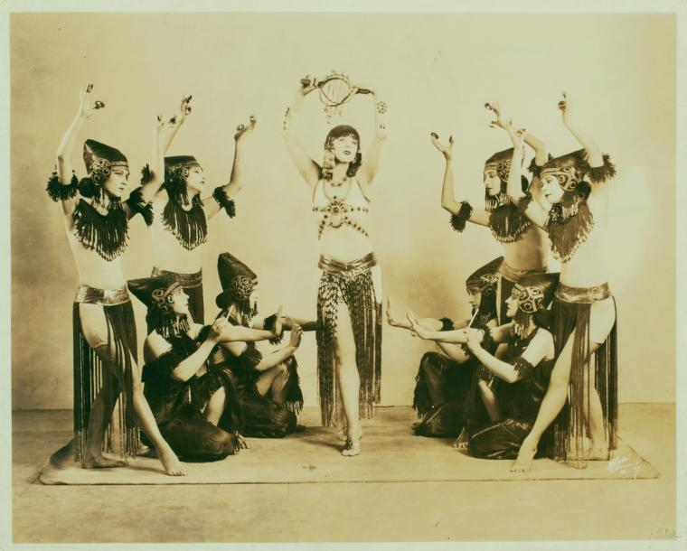 Digital ID: DEN_1512V. Ruth St. Denis and Denishawn Dancers in Ishtar of the Seven Gates. With Doris Humphrey, Louise Brooks, Jeordie Graham, Pauline Lawrence, Anne Douglas, Lenore Scheffer, Lenore Hardy, Lenore Sadowska.. White Studio (New York, N.Y.) -- Photographer Notes: National Endowment for the Arts Millennium Project. Source: Denishawn Collection (more info) Repository: The New York Public Library. The New York Public Library for the Performing Arts. Jerome Robbins Dance Division. See more information about this image and others at NYPL Digital Gallery. Persistent URL: ; may be subject to third party rights (for more information, click here)